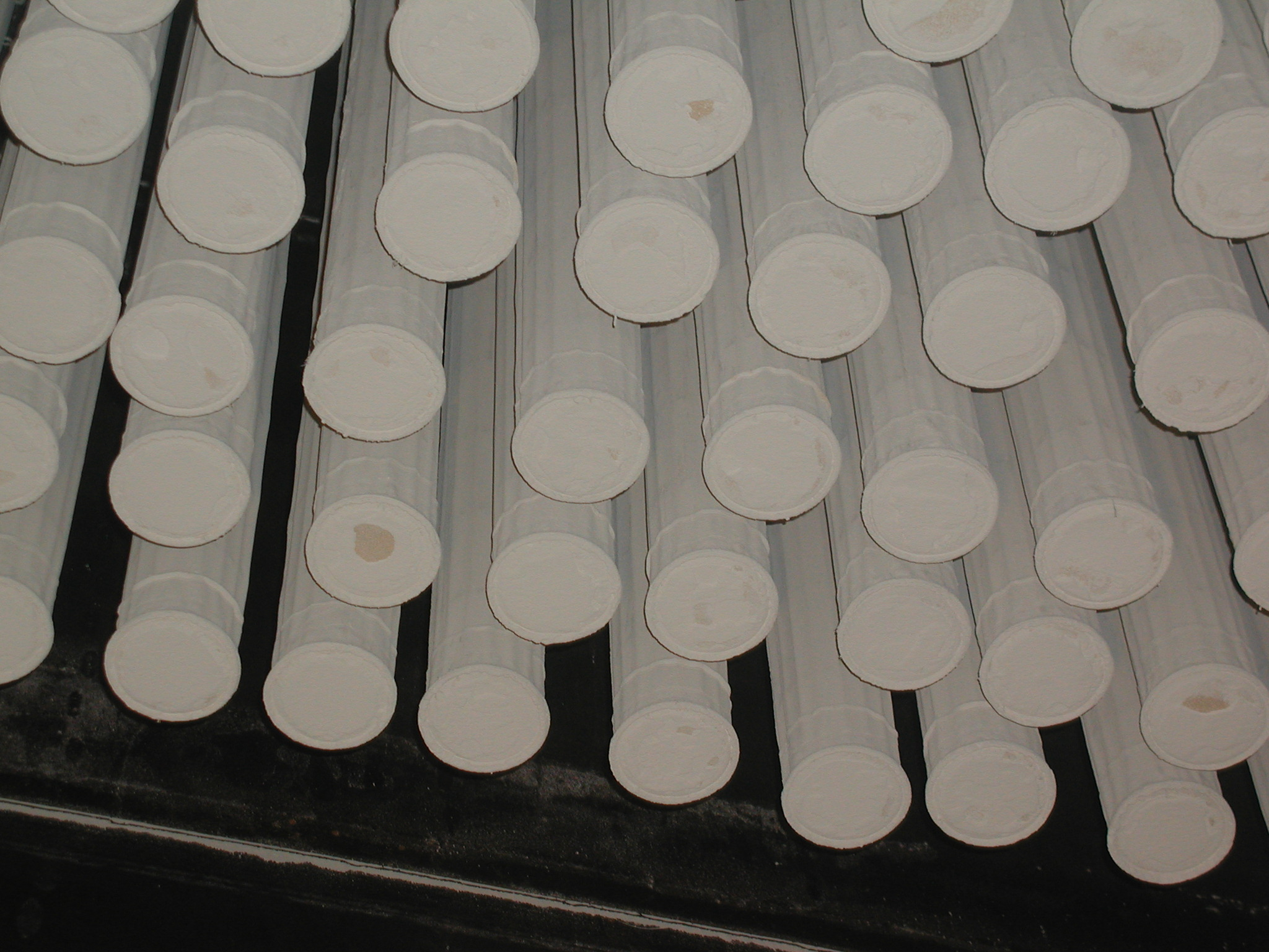 Photo of a bag filter